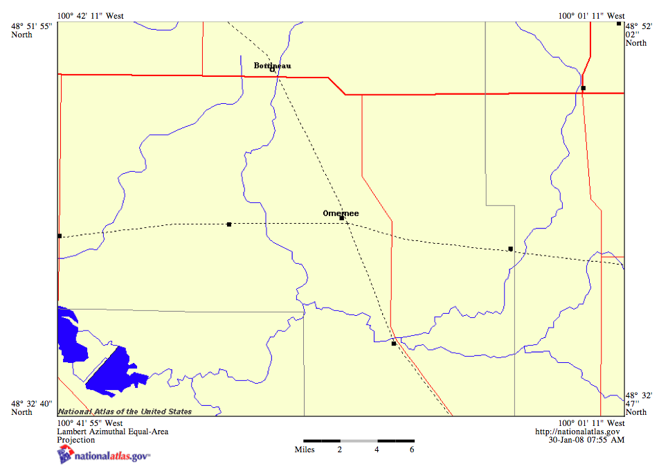 Map showing Omemee, North Dakota